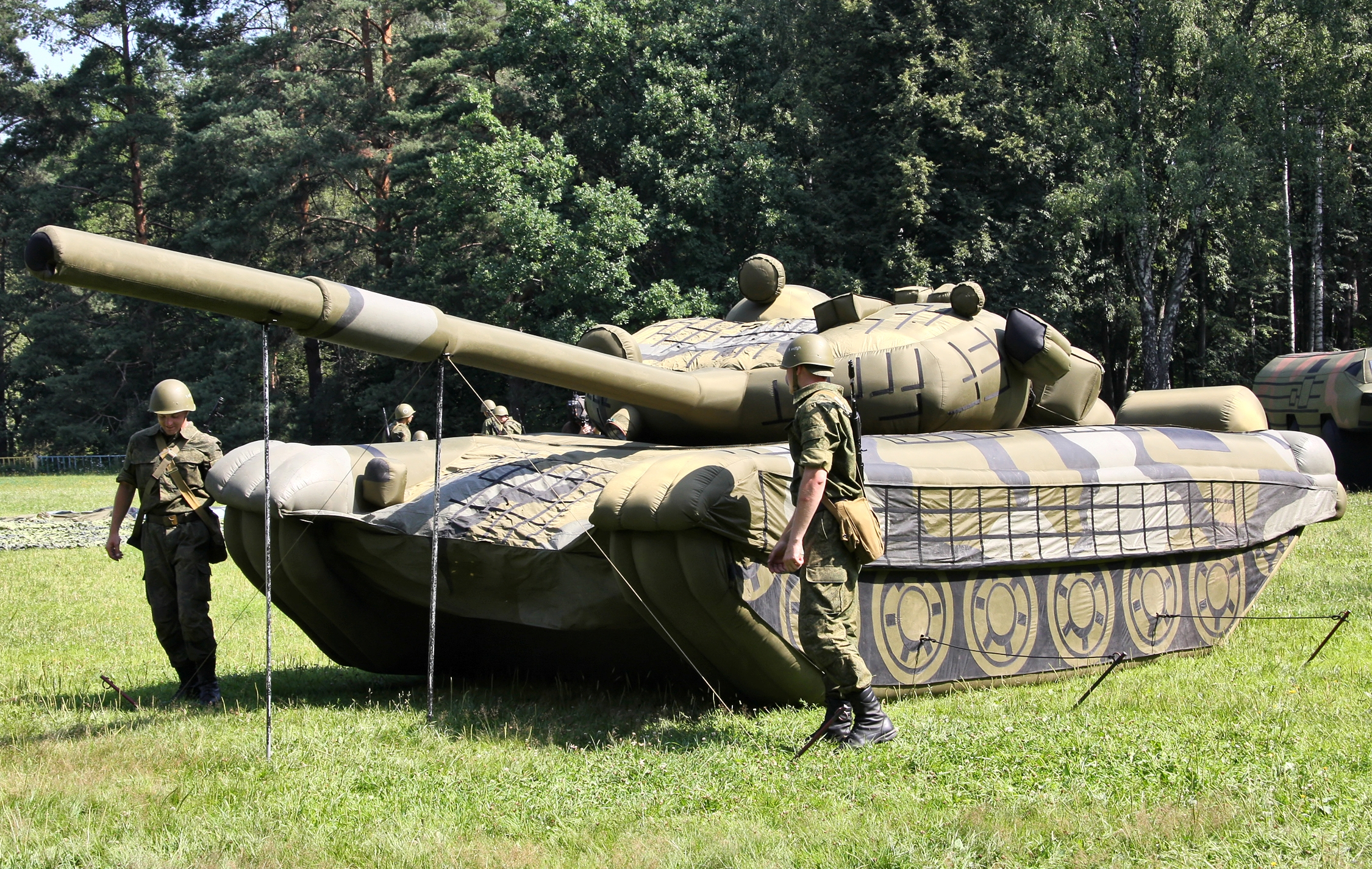 The 45th Separate Engineer-Camouflage Regiment of Russia.